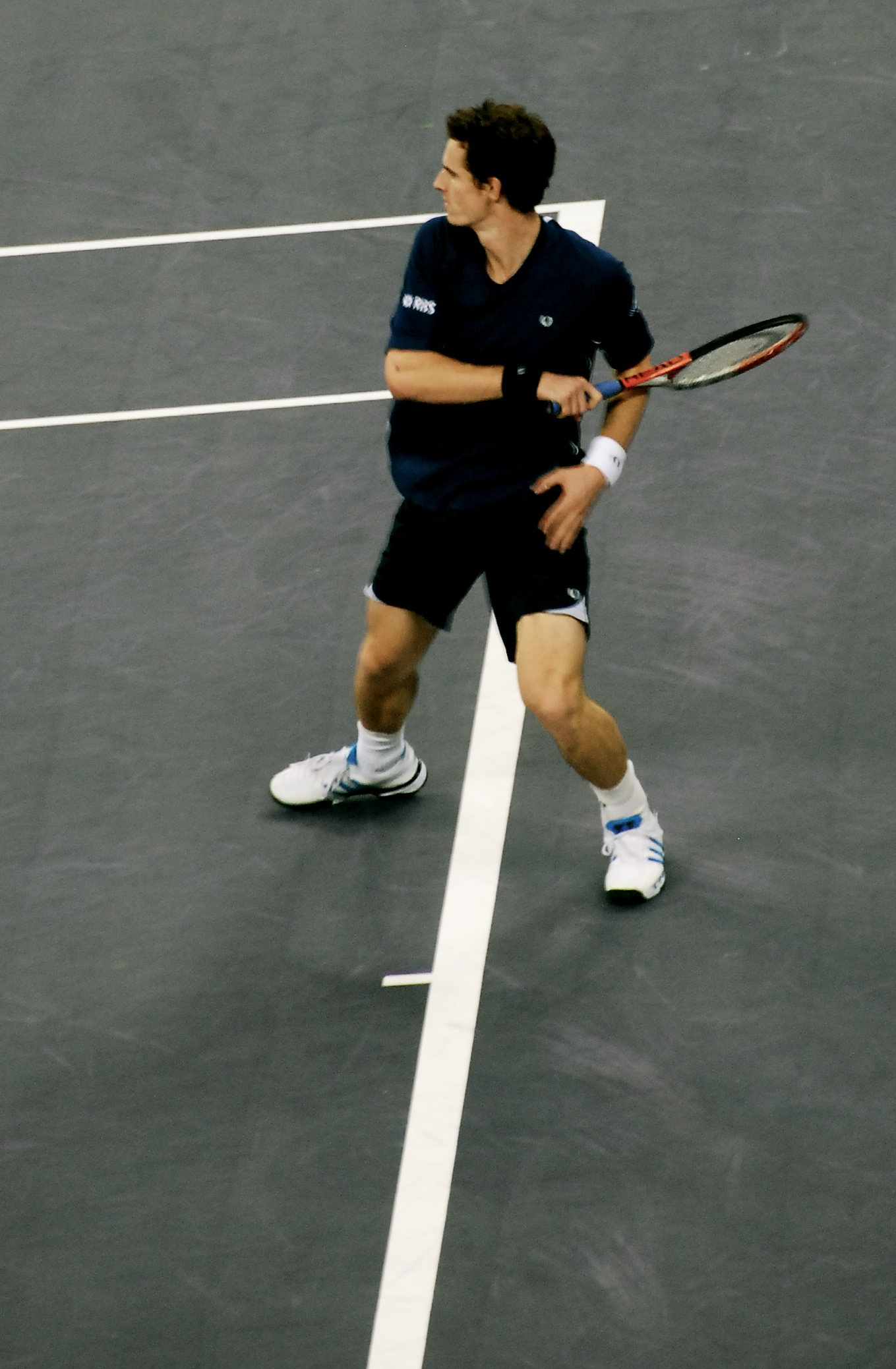 Andy Murray against Roger Federer at the 2008 Tennis Masters Cup